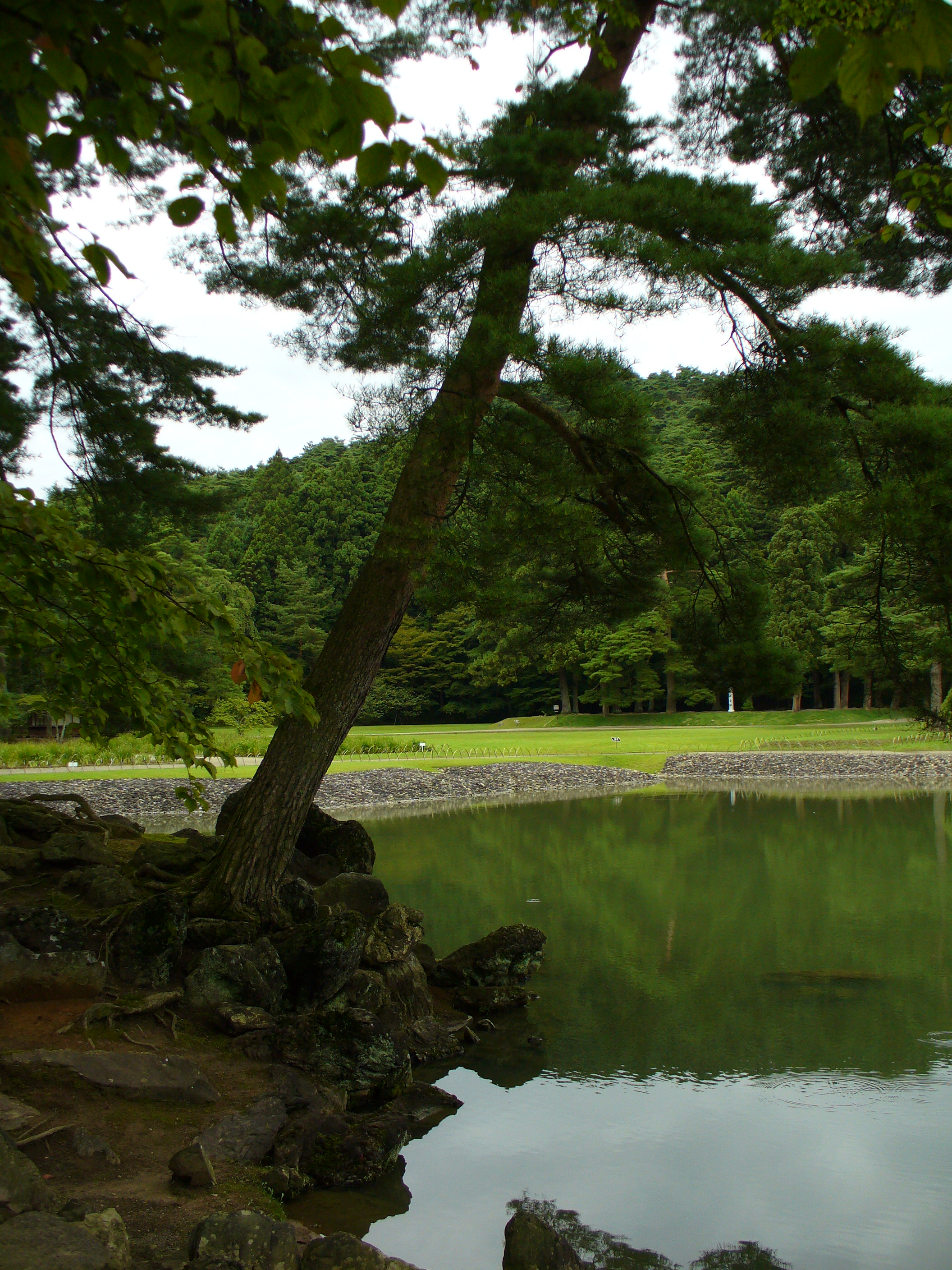 Motsuji Oizumi ga ike Pond and Tsukiyama in Hiraizumi, Iwate